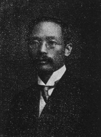 Mr. Kanjirō Higuchi, manager of the Japanese Education Association.